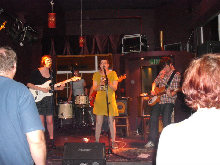 Indie-pop band Tender Trap playing at Mello Mello, Liverpool, July 2010